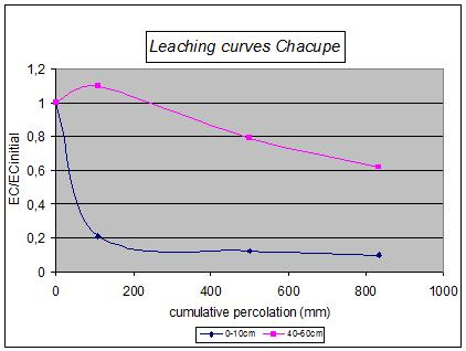 Leaching curves of salts from the soil upon reclamation